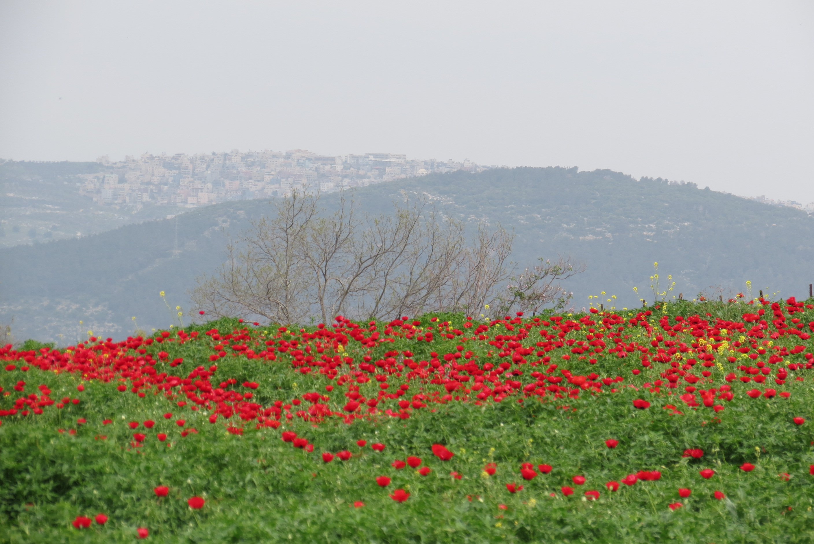 Papaver, Poppies פרג בכפר נין